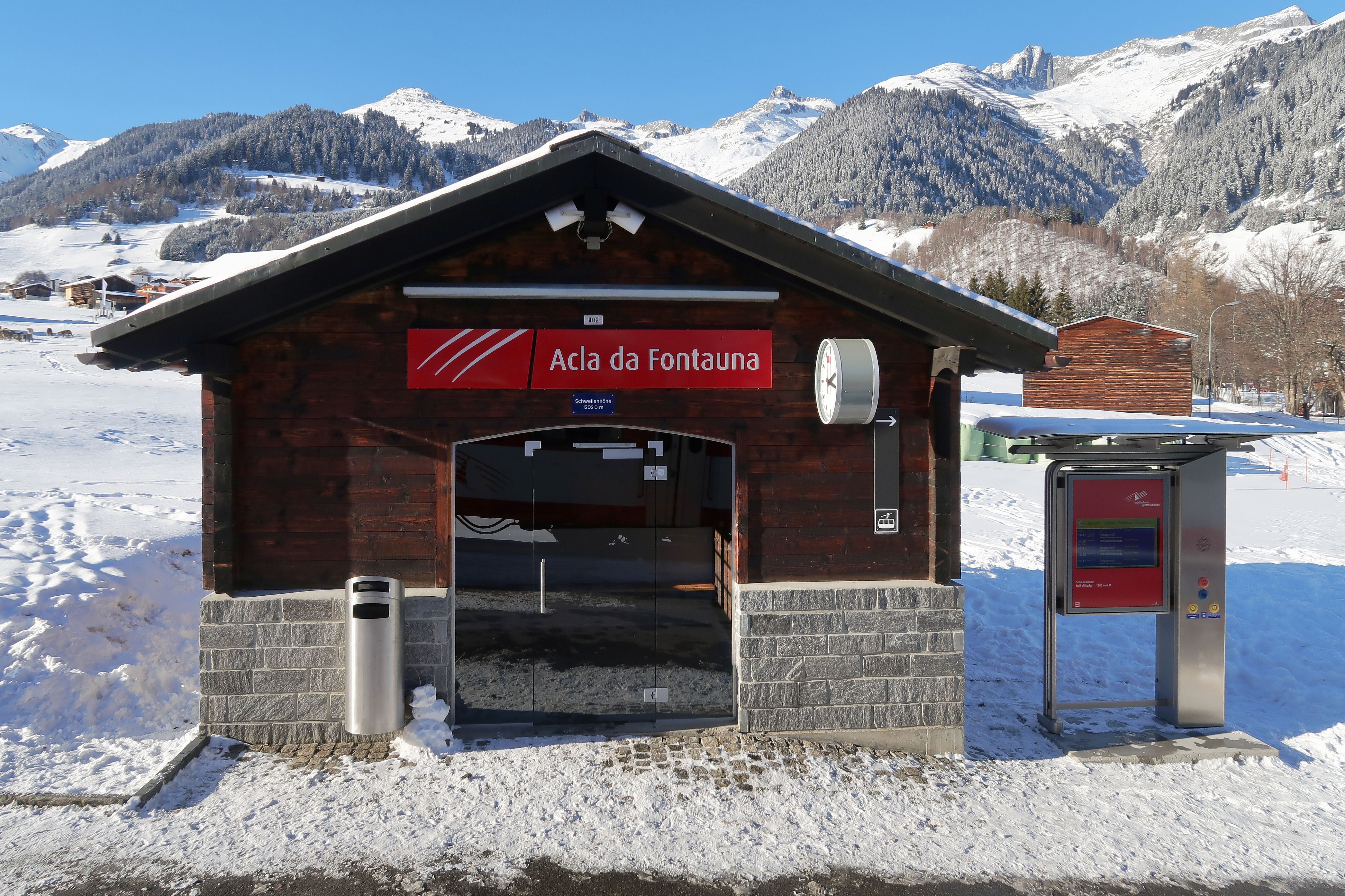 A small station of the Matterhorn Gotthard Bahn with stop on request operation near Disentis, in direction to the Oberalp Pass at 1202 m ü.M./3943 ft ASL. Not just a small cottage, but fully equipped even with electronic timetable display (right). The name means an outer estate at a spring. Switzerland, Jan 9, 2017.